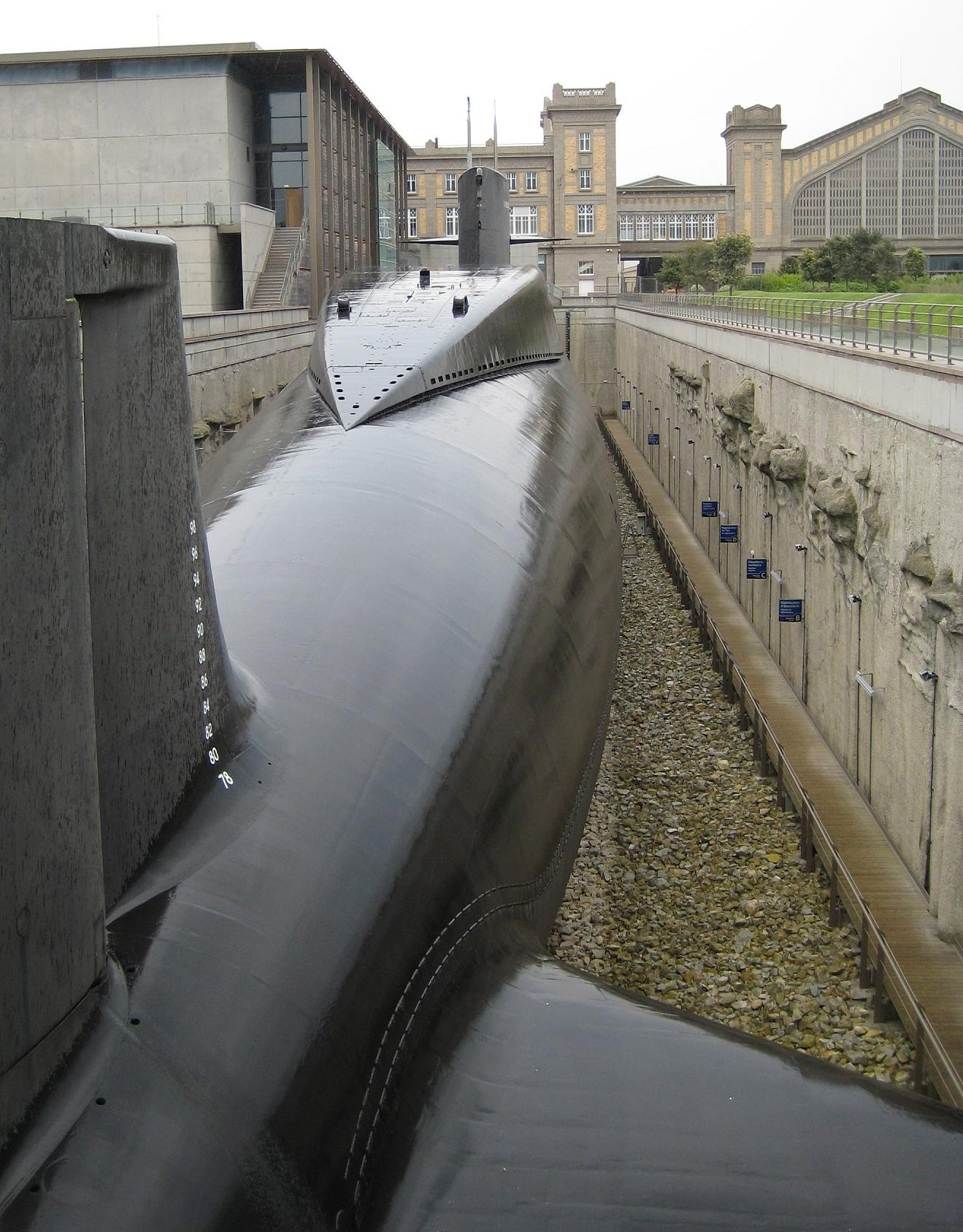 French submarine Redoutable (S 611) at the Cité de la mer in Cherbourg